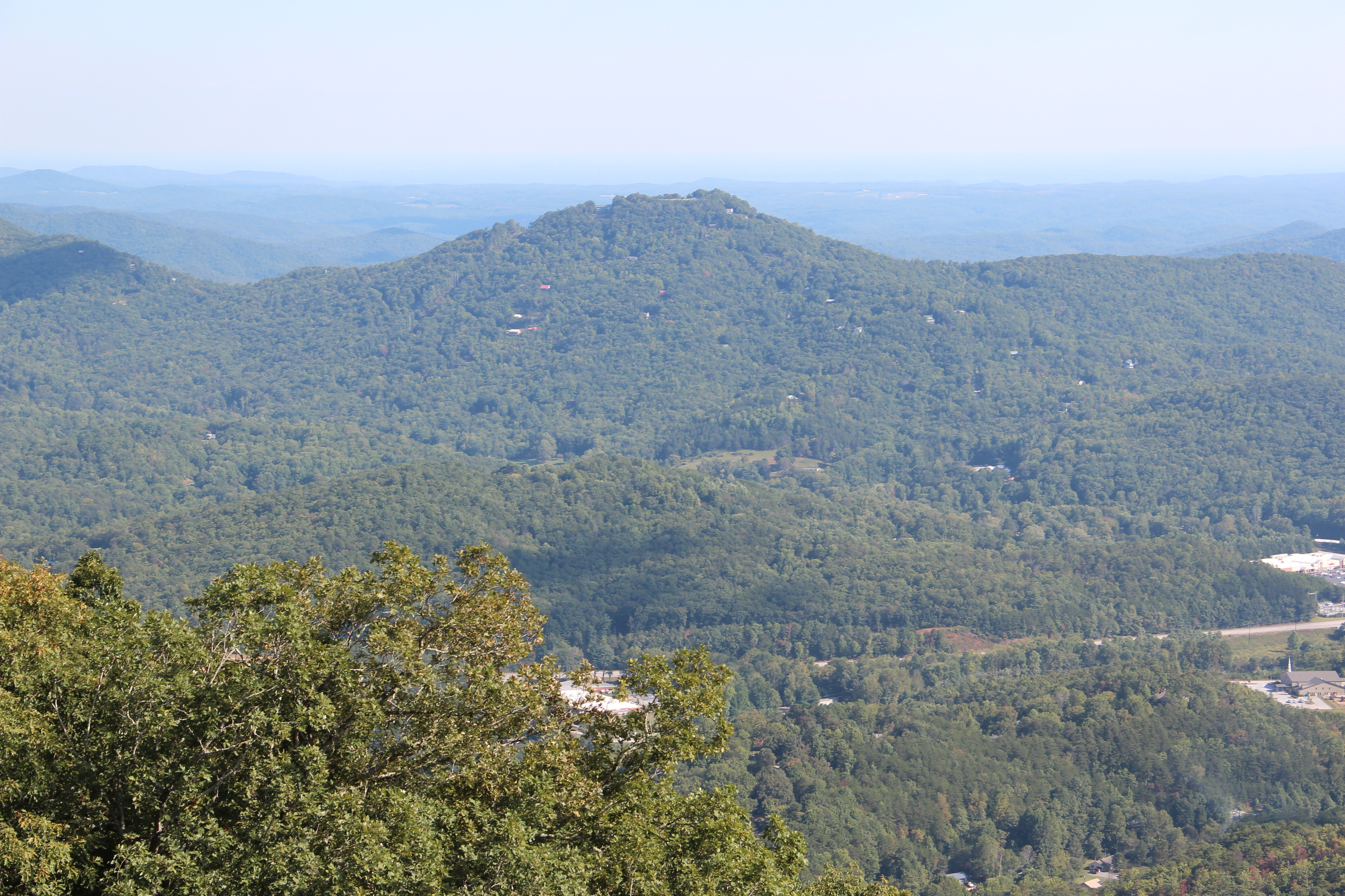 Viewed from Black Rock Mountain State Park